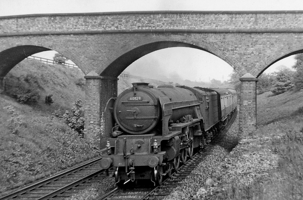 Down ECML express at Croxdale. View eastward at Sunderland Bridge, near the former Croxdale Station on the ex-North Eastern Darlington - Newcastle section of the East Coast Main Line. The train is the 10.05 King's Cross - Edinburgh - Glasgow express, headed by A1 Pacific No. 60129 'Guy Mannering'.